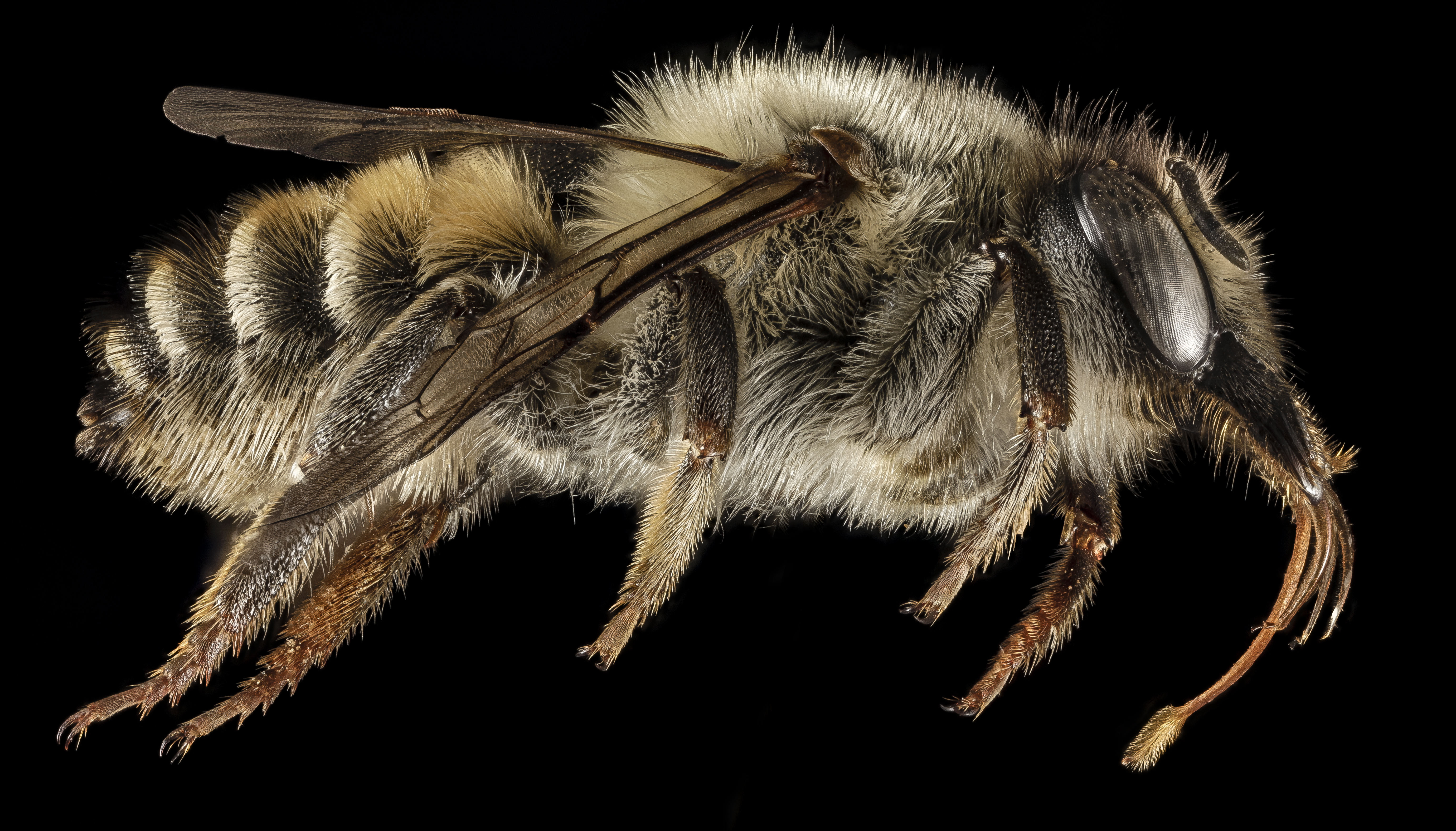 Specimen of Megachile montenegrensi, lateral view. Many of the Megachile are pea lovers and this one is no exception. A spring member of the Chalicodoma subgenus. Collected by Jelle Devalez as part of his studies of the islands of Greece. Photography by Brooke Alexander. Photography Information: Canon Mark II 5D, Zerene Stacker, Stackshot Sled, 65mm Canon MP-E 1-5X macro lens, Twin Macro Flash in Styrofoam Cooler, F5.0, ISO 100, Shutter Speed 200